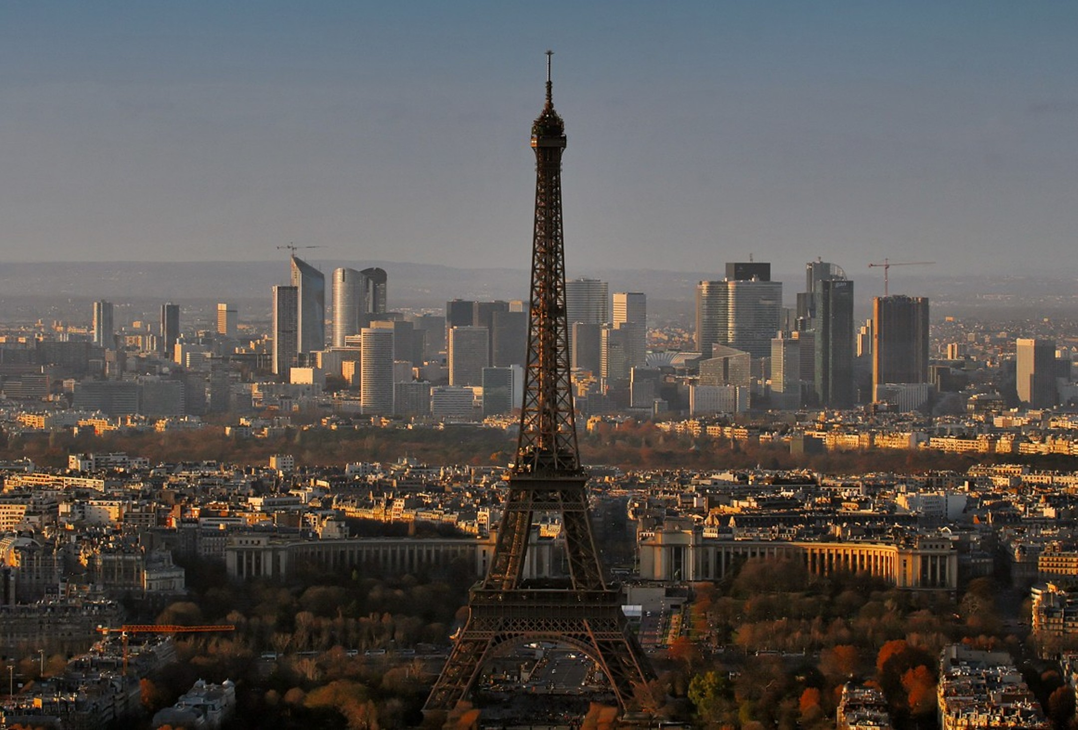 The Eiffel Tower and La Défense business district taken by myself from the Montparnasse Tower on 12-18-07.